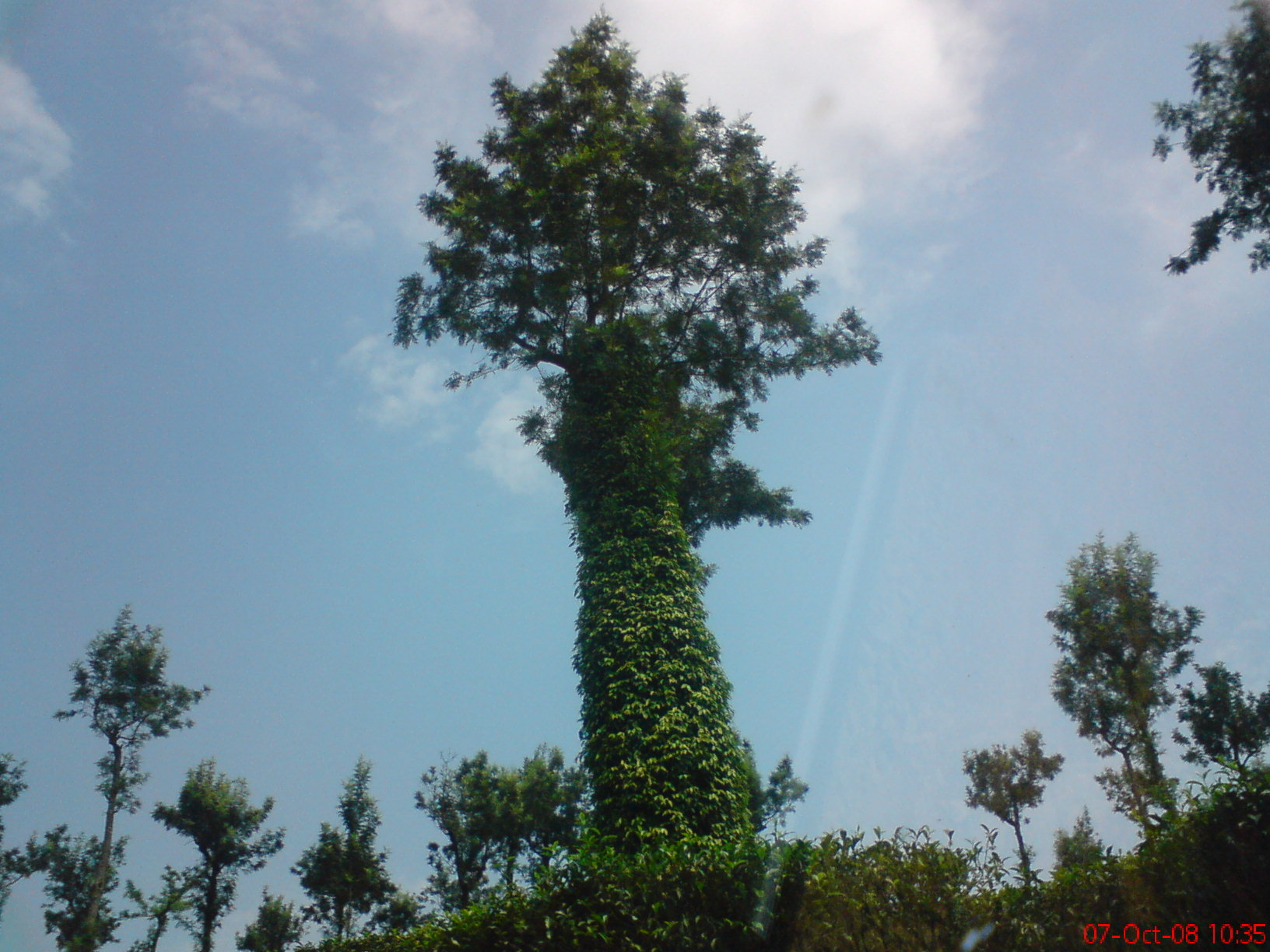 View from Wayanad district, Kerala